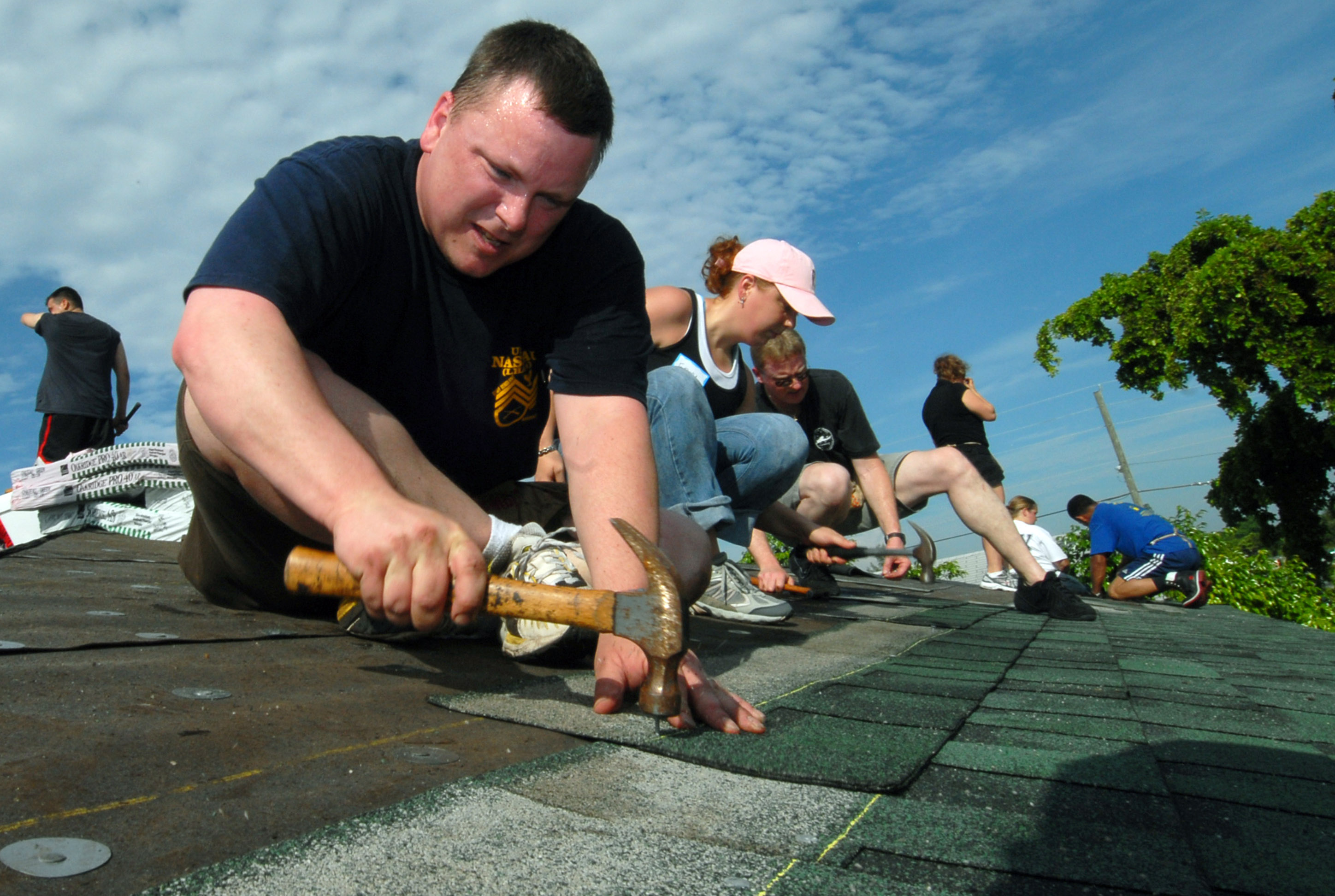 FT. LAUDERDALE, Fla. (July 6, 2007) - Cyptologic Technician Technical 1st Class Jason Guidry nails shingles onto the roof of a house during a community relations project with Habitat for Humanity. The crew members from USS Nassau (LHA 4) completed the roof during a port visit to Ft. Lauderdale during the July 4th weekend. U.S. Navy photo by Mass Communication Specialist 3rd Class Steven Scott Smith (RELEASED)